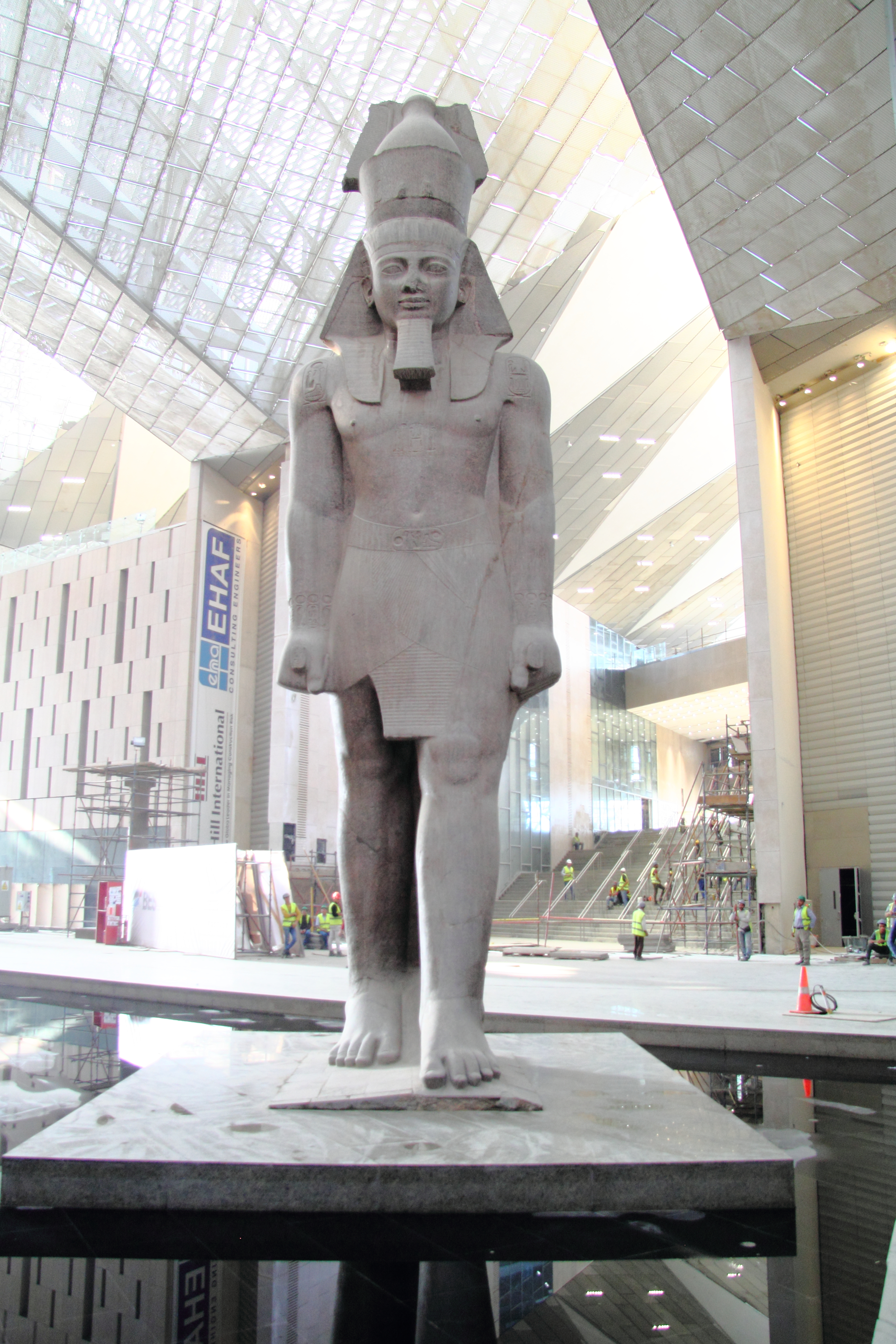 Cairo, Egypt: Grand Egyptian Museum under construction (November 2019) with Statue of Ramesses II in the entrance hall